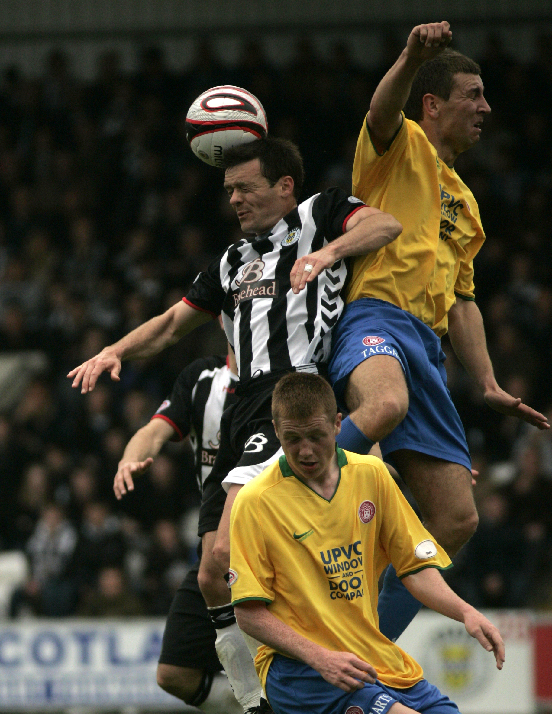 Header (St Mirren 0-1 Hamilton Academical May 2009, [1])